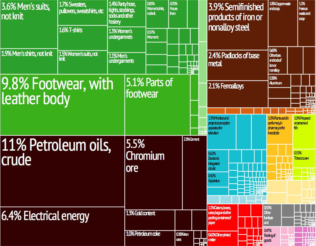 Albania Export Treemap from MIT Harvard Economic Observatory